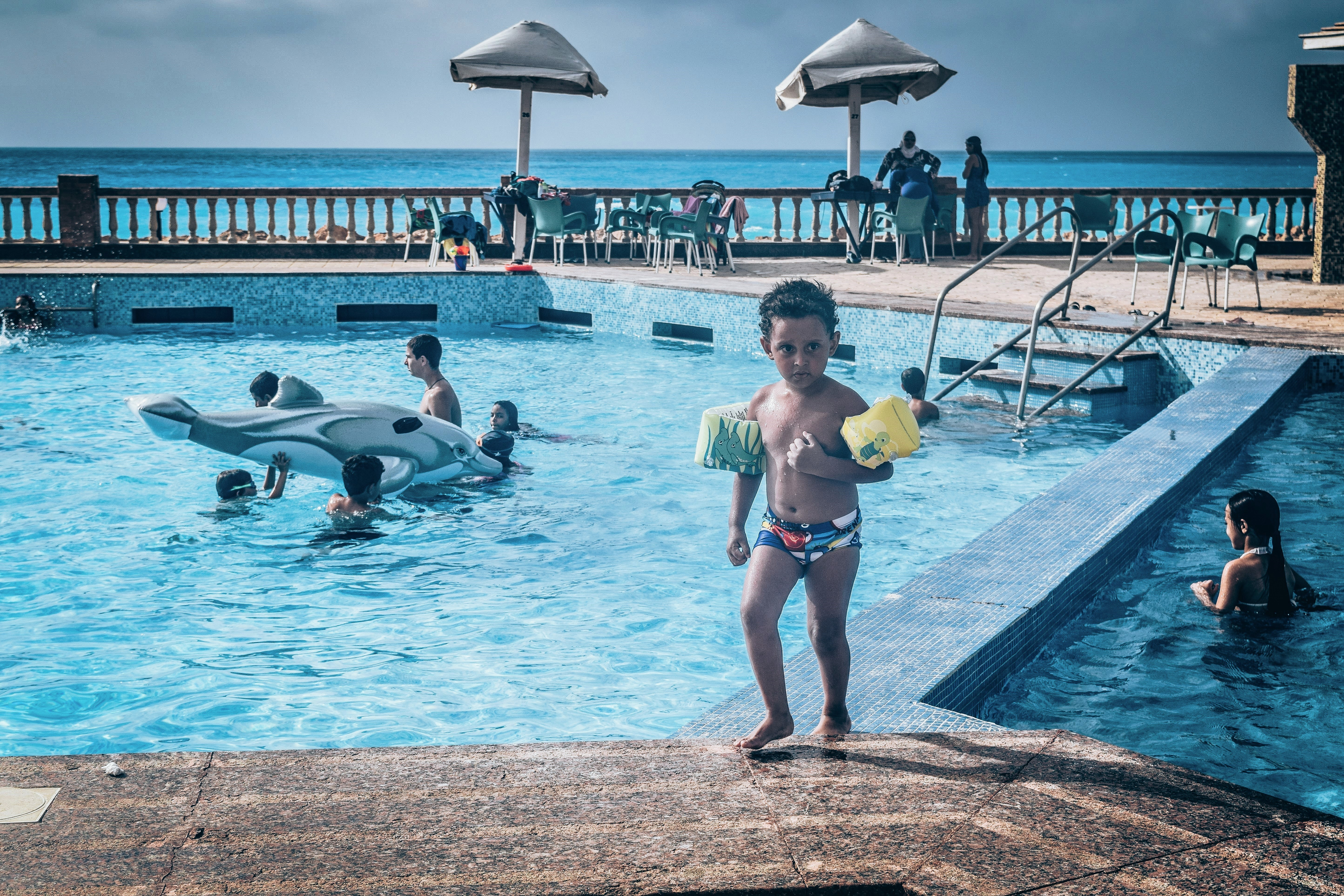 Kids swimming and having fun in the swimming pool This is an image with the theme "Play" from: Egypt